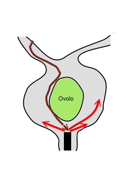 Infection Claviceps purpurea